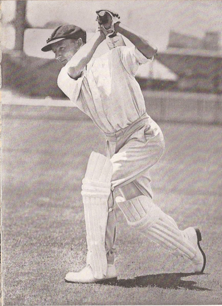 Australian batsman Don Bradman